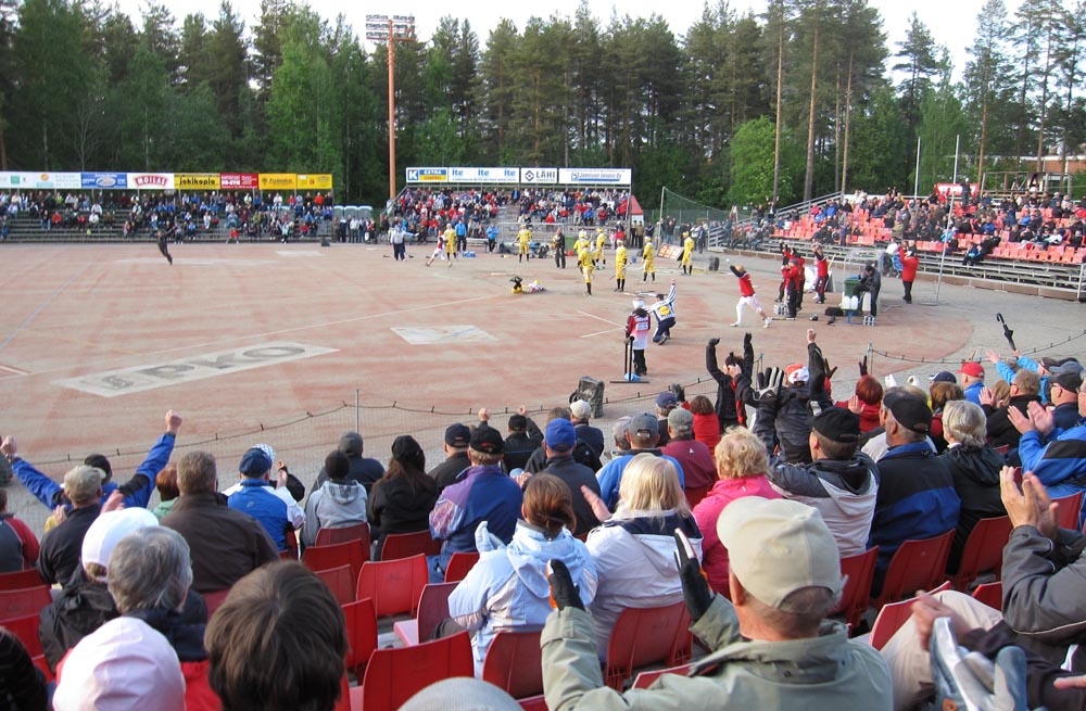 Mehtimäki baseball stadium